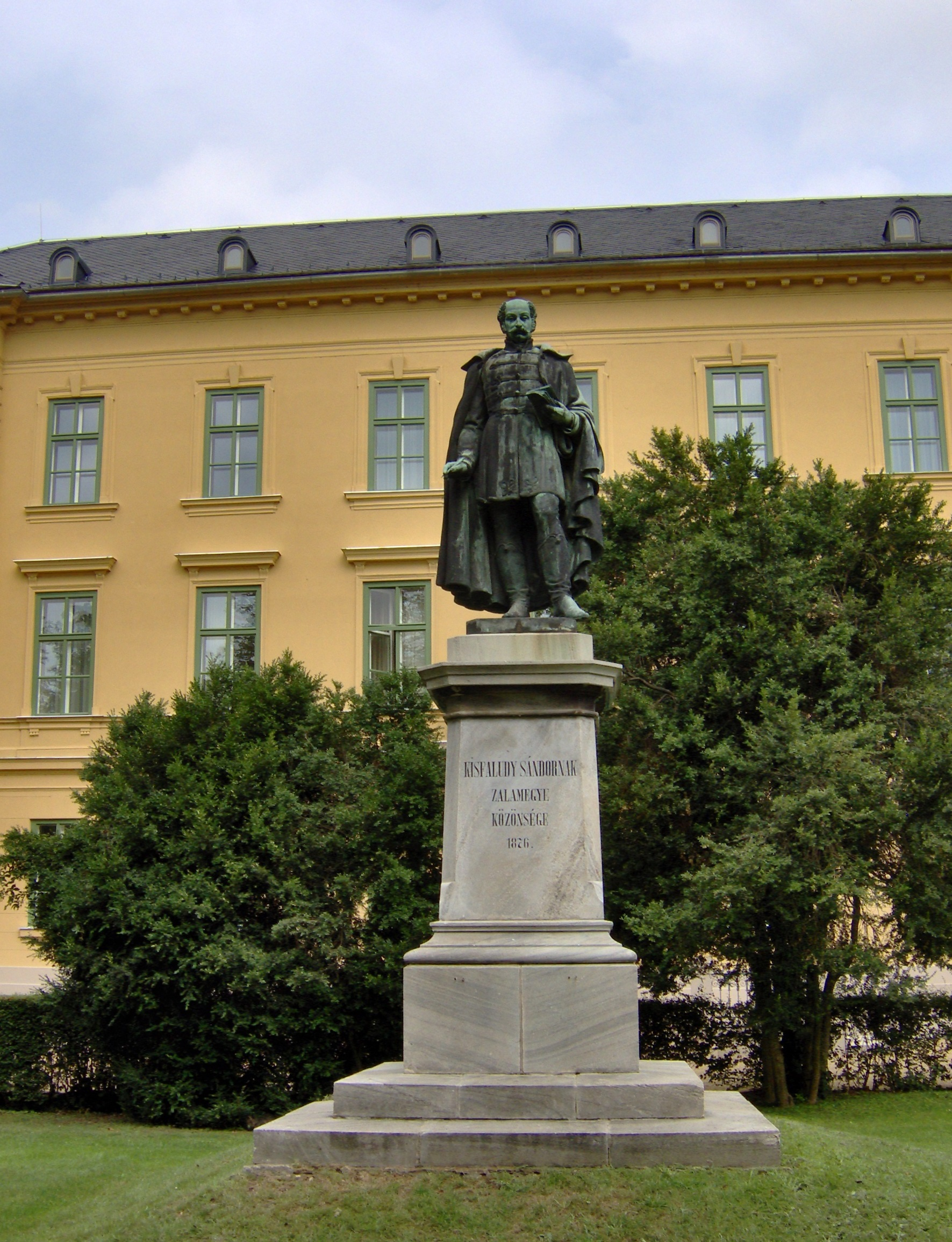 Sándor Kisfaludy, Balatonfüred